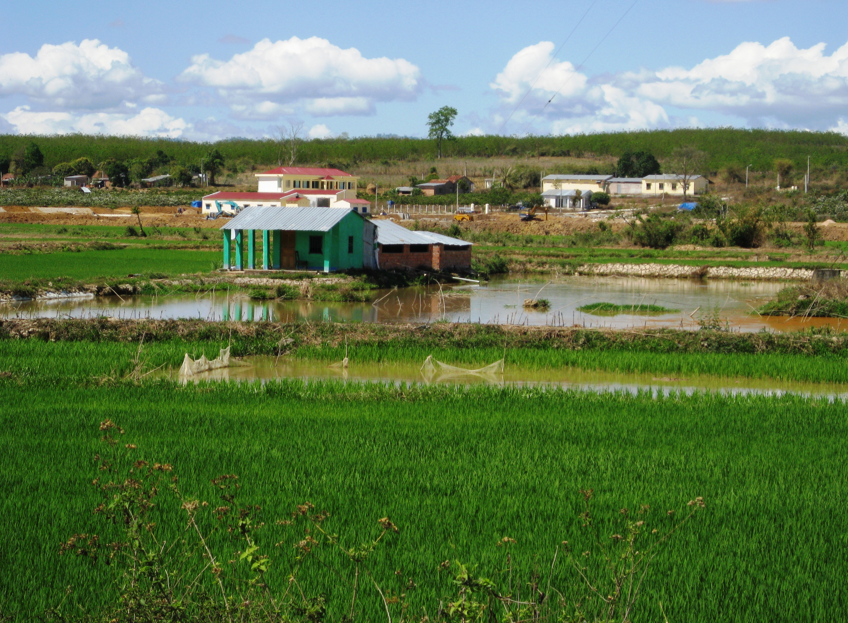 A paddy field in Vietnam.